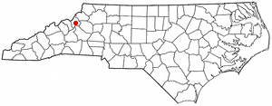 Category:North Carolina Dot Maps